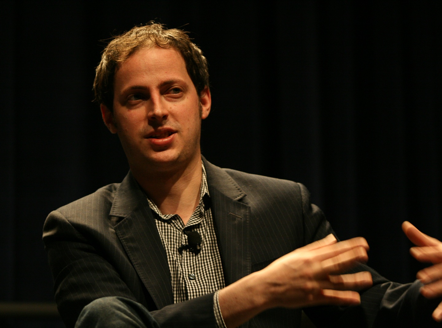 American statistician Nate Silver at SXSW in Austin, Texas USA on March 15, 2009.